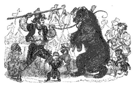 Illustration fro the book chapter "Grizzly bear, Ursus Ferox. Lewis and Clarke.", immediately following the description of Old Martin.